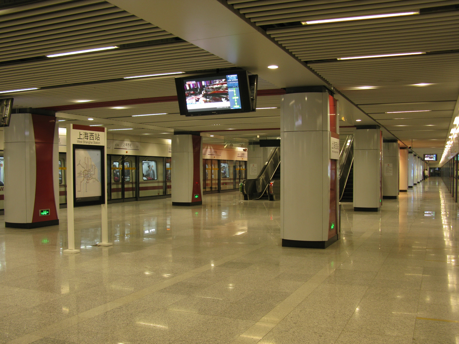 Line 11 Platform of West Shanghai Station Station, Shanghai Metro